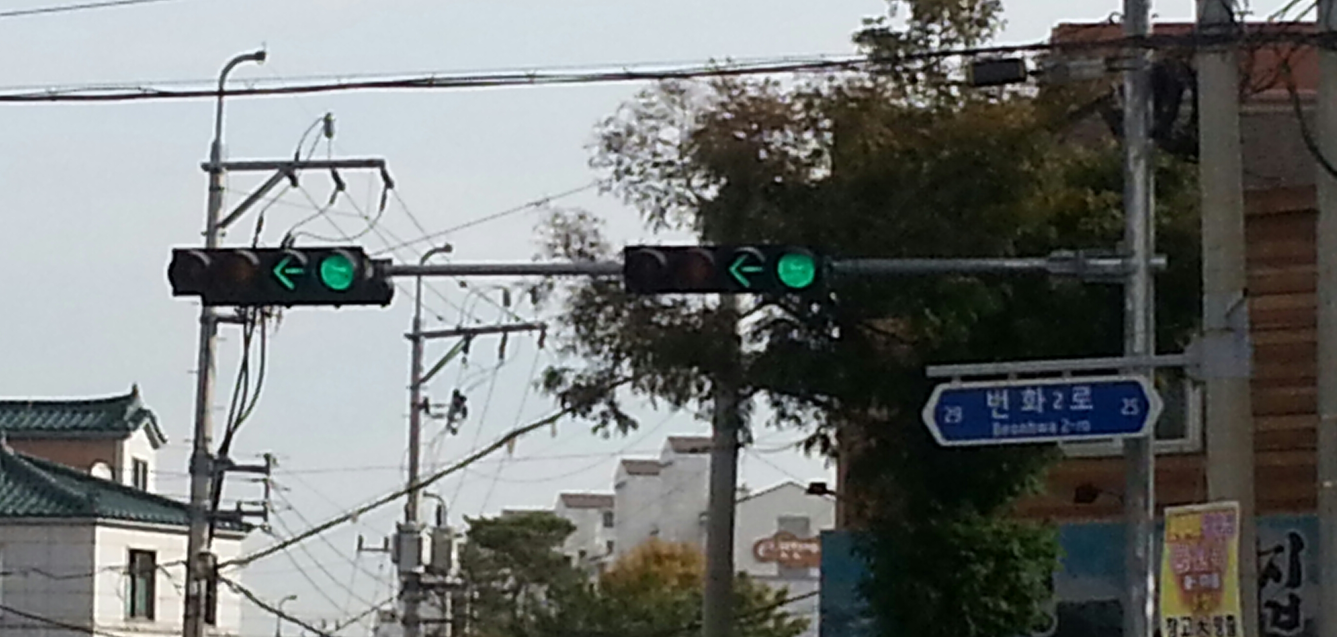 Road Name Address Sign in South Korea. Beonhwa 2-ro, Gimhae, South Korea